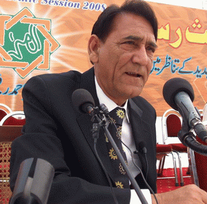 TO use in wikipedia, orignal picture of Prof. Ahmad Rafique Akhtar